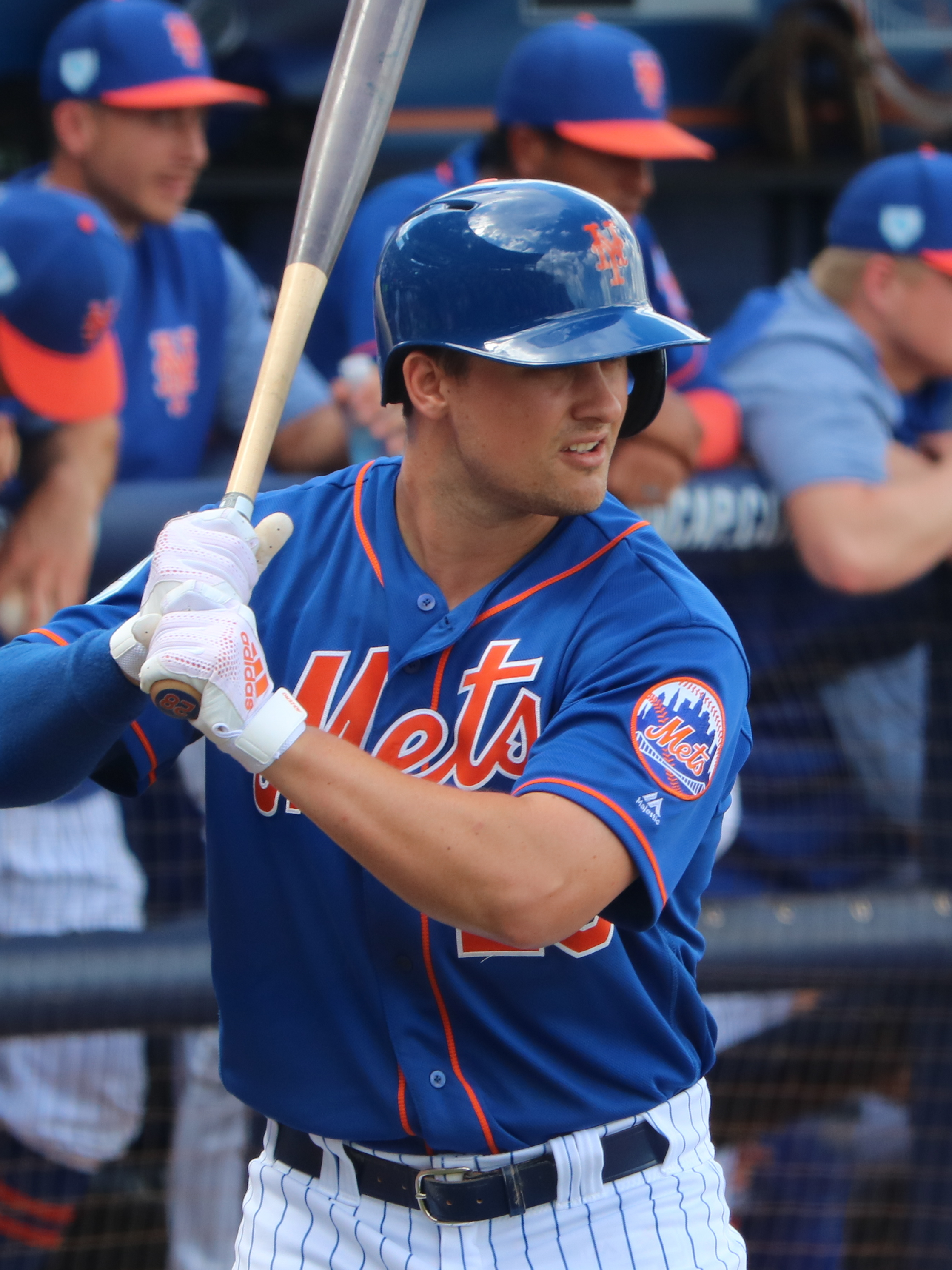 J. D. Davis on deck, March, 2, 2019